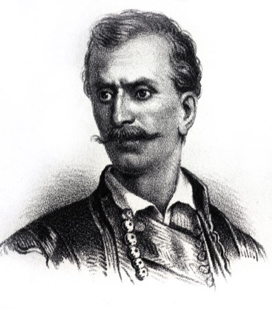 Olympios Giorgakis